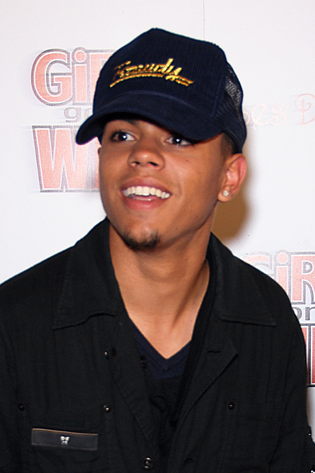 Evan Ross attending the second issue release of "Girls Gone Wild Magazine" Party at Les Deux, Hollywood, June 4, 2008